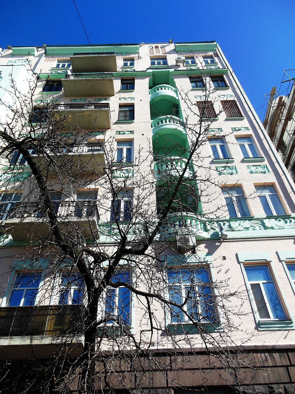 Moroz house in Kiev.